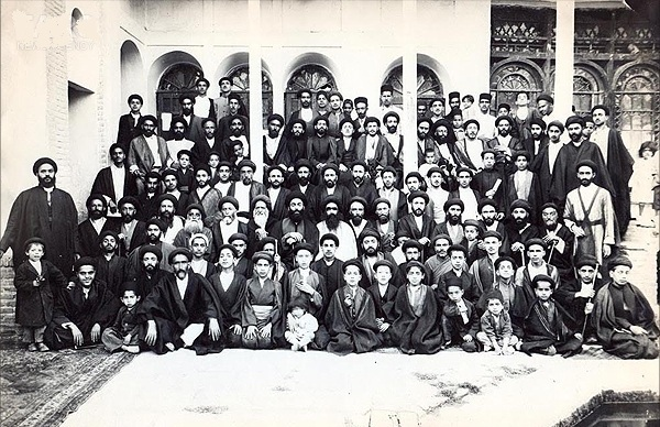 Sultan al-Wa'izin Shirazi